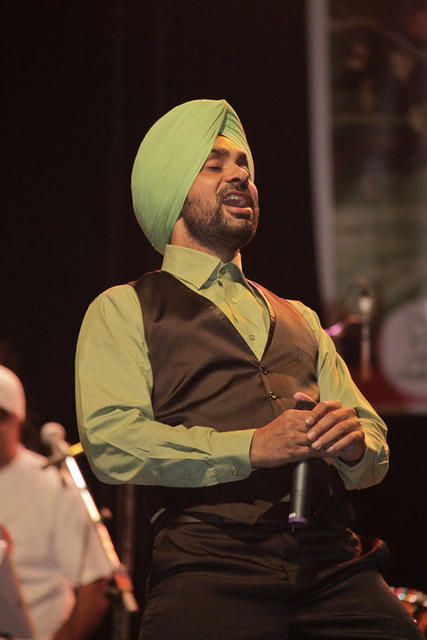 Babbu Maan performing live, Vancouver 2010